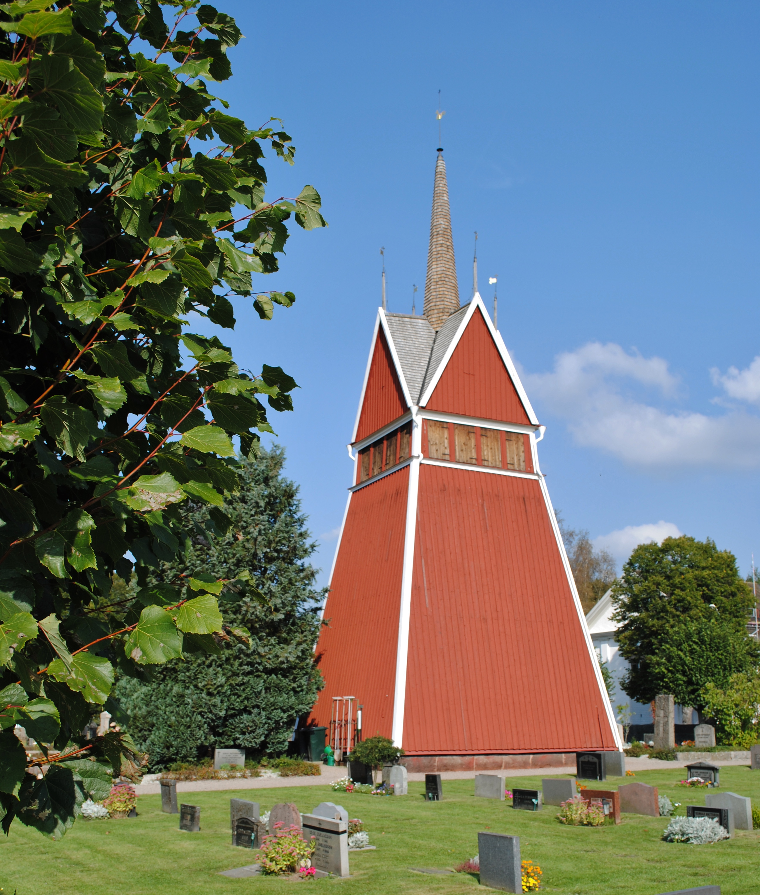 Backaryd Church.Bell Tower